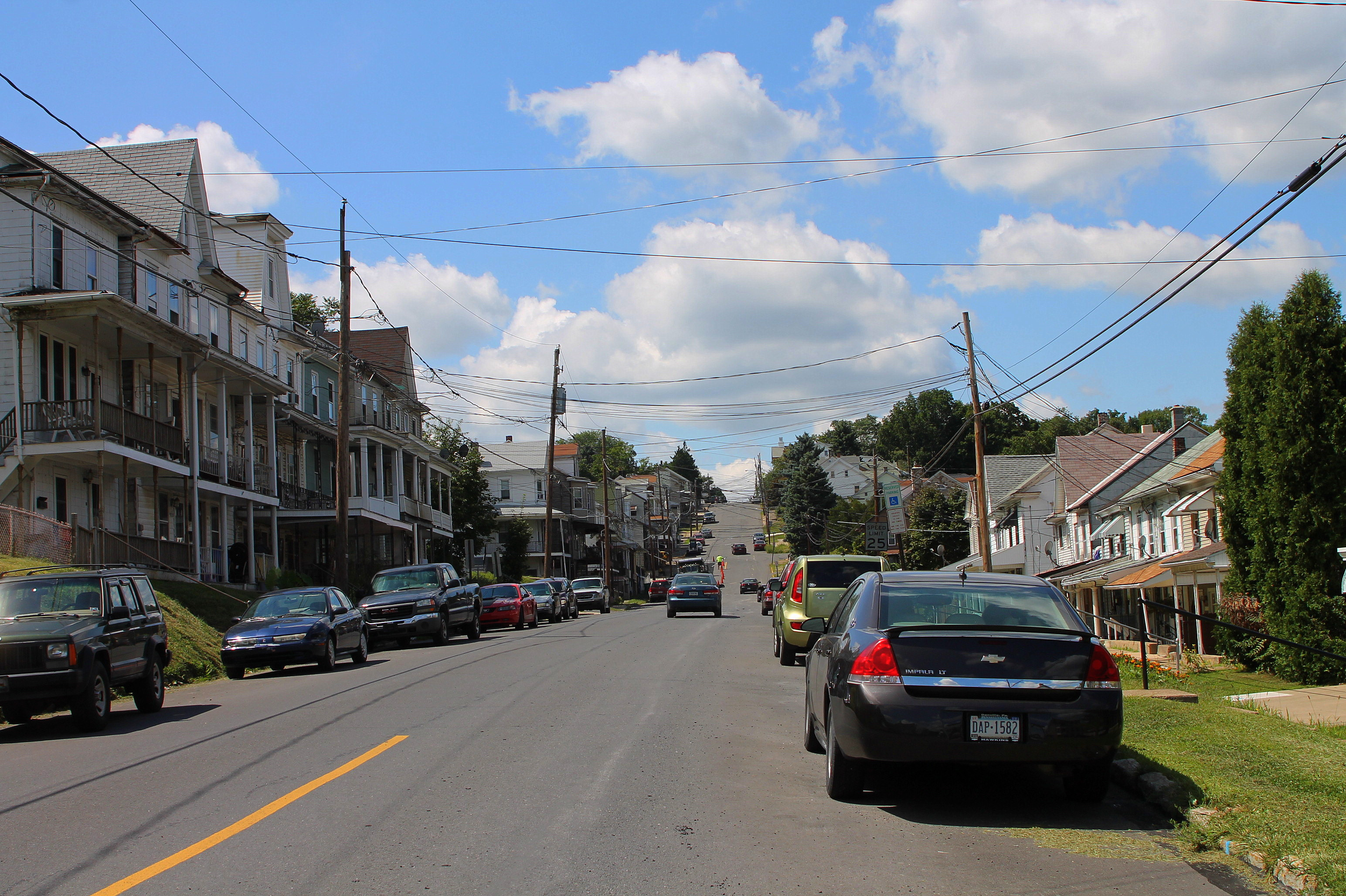 Fairview-Ferndale, Pennsylvania streetscape